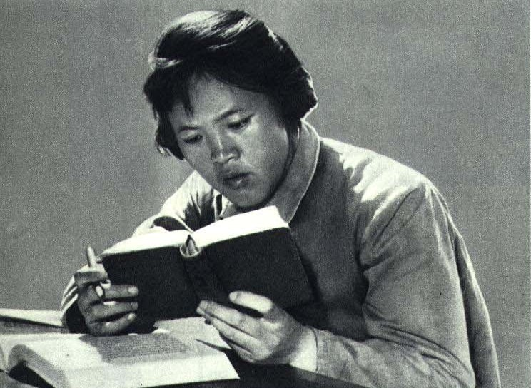 1967-02 1967年尉凤英2